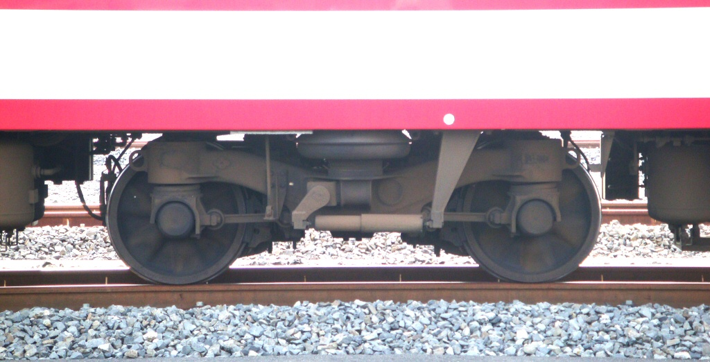 bogie truck of Tobu Railway 250 series EMU ( Moha 251-5 )